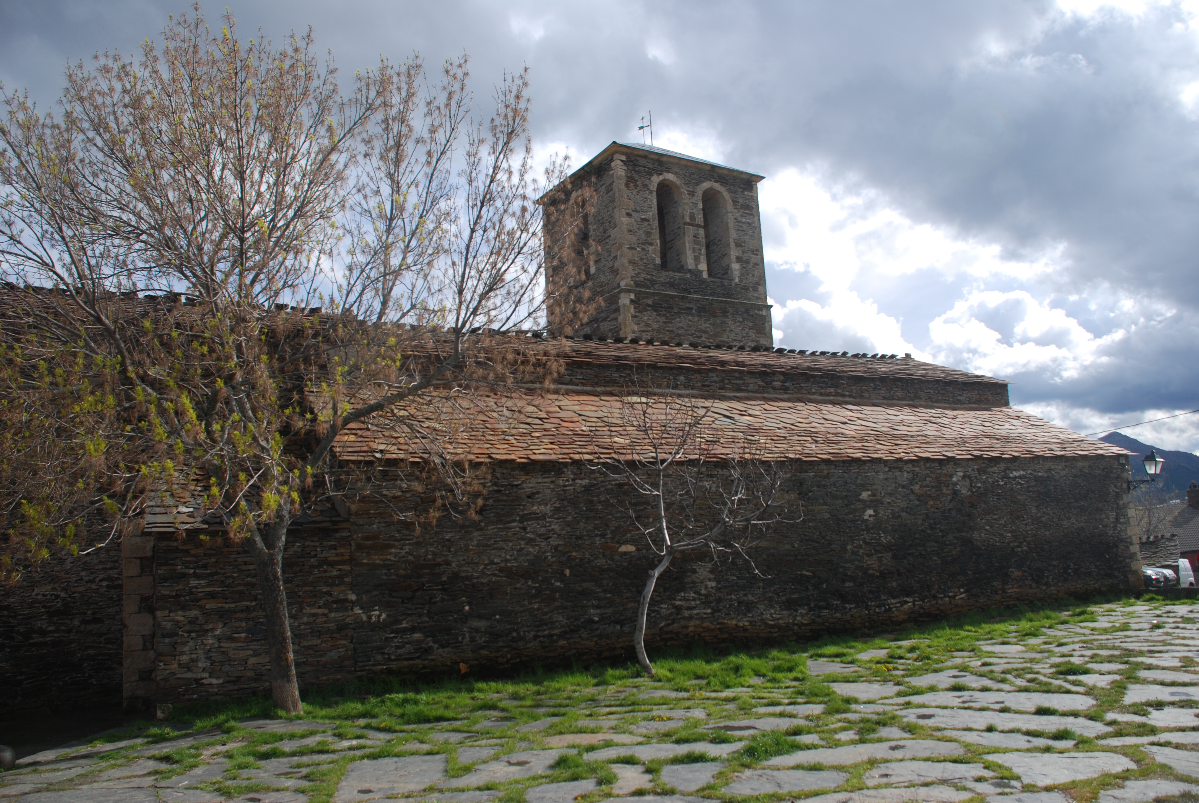 Saint Mary Magdalene's Church, in Campillo de Ranas, Guadalajara, Spain.